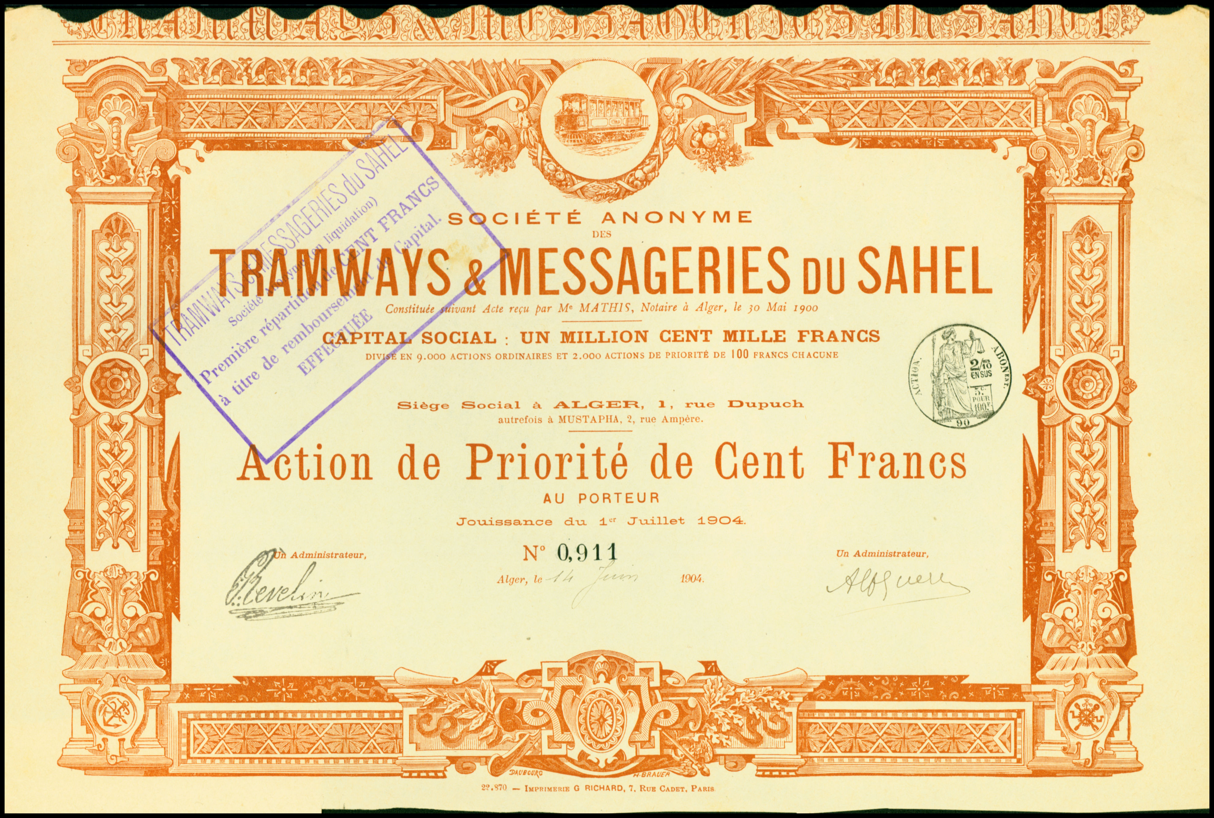 Share of the S. A. des Tramways & Messageries du Sahel, issued 4. July 1904